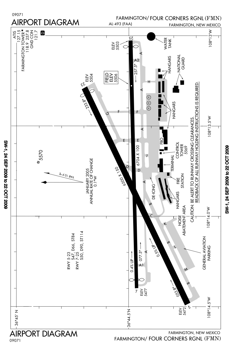 A JPG converted version of the official FAA airport diagram of the Four_Corners_Regional_Airport in Farmington, New Mexico.